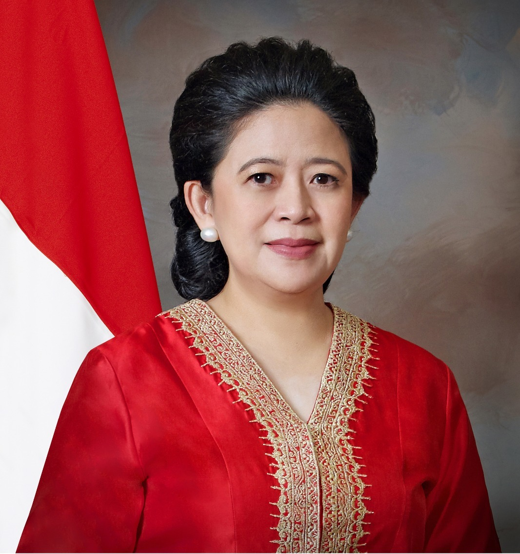 Puan Maharani as People's Representative Council, Republic of Indonesia